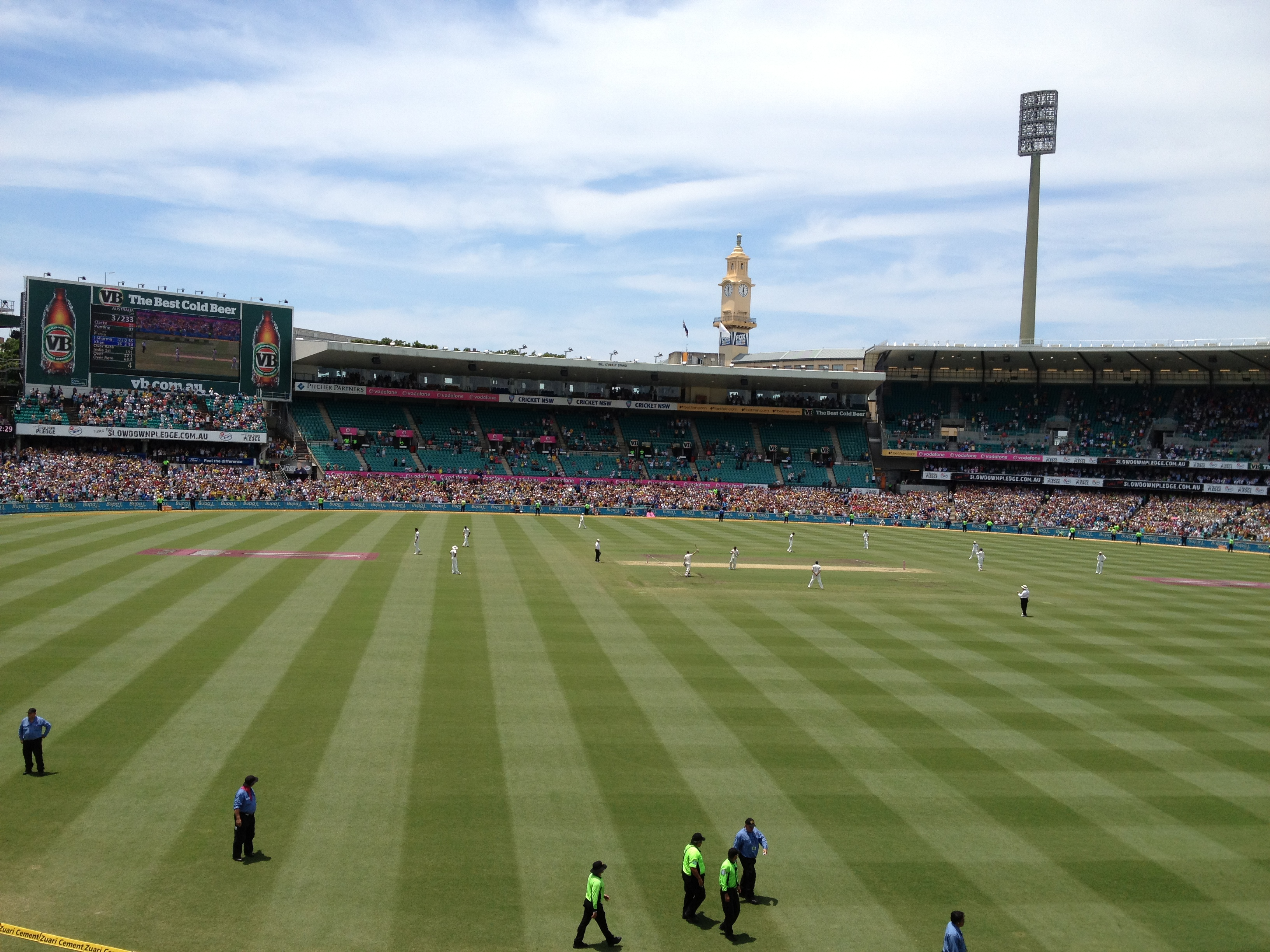 On the third day of the second Australia-India 2011-12 test match series, the 100th test held at the ground, Michael Clarke raises his bat to the crowd celebrating his 100th run. He went on to declare at 329. This was the first time time a triple-century had been achieved at the SCG and the highest ever score by an Australian captain. Australia won the match by an innings with Clarke winning man of the match. His partner at this point was former captain Ricky Ponting on 97, going on to score 134.